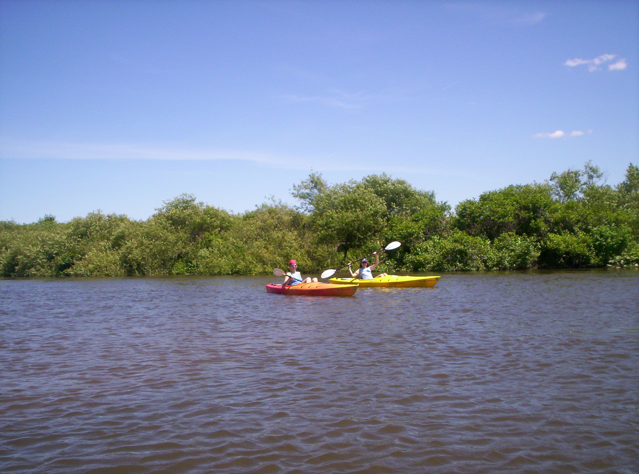 Kayakers on the Kalamazoo River. The Kalamazoo is a popular river for canoeing and kayaking. This picture was taken by Wade Renando in the summer of 2005.